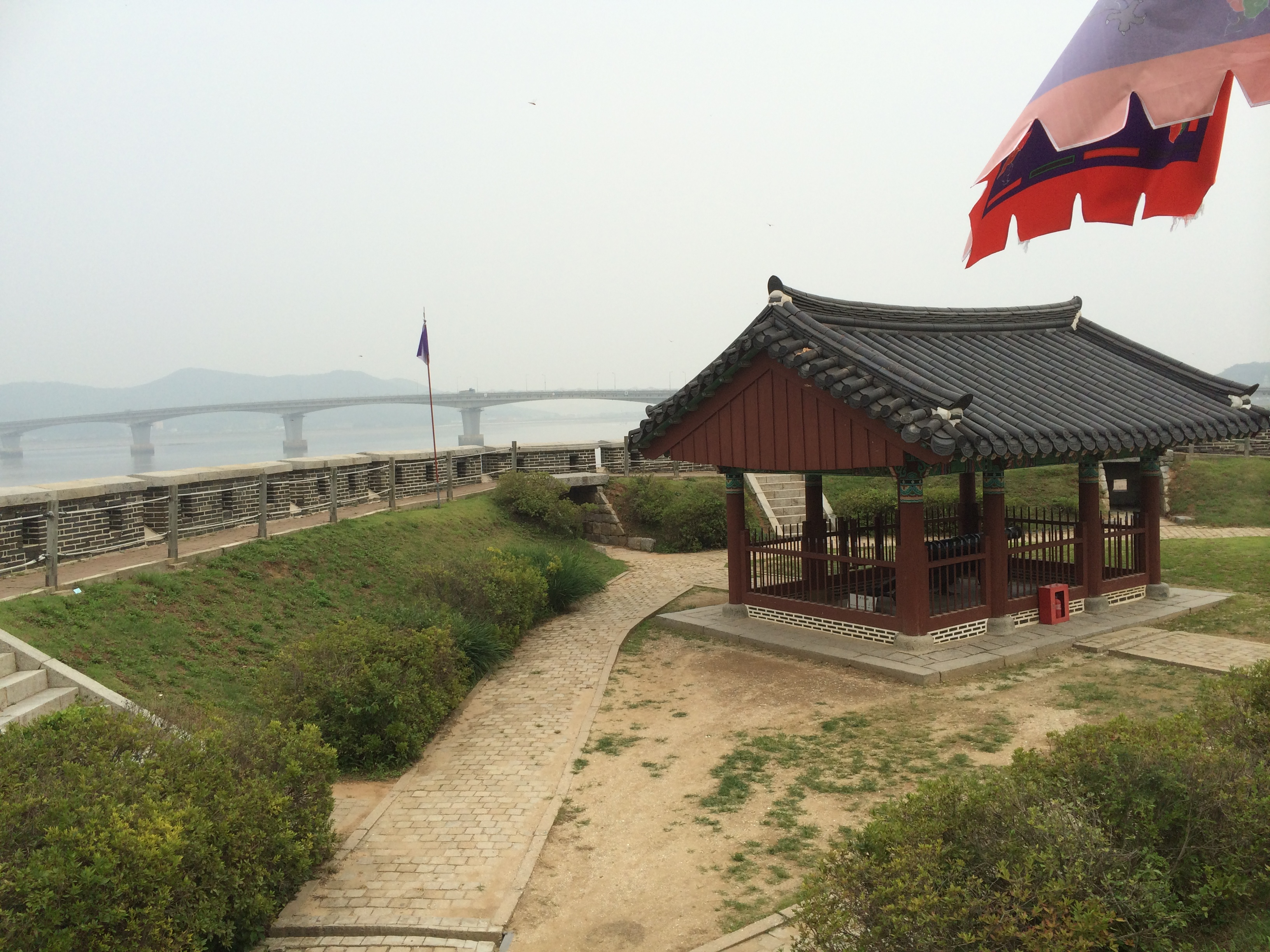 Chojijin, a fortress in Ganghwado built at Joseon Dynasty